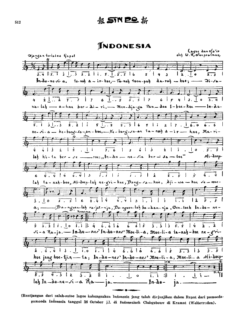 First publication of what is now known as Indonesia Raya in the 10 November 1928 issue of the weekly Sin Po magazine.